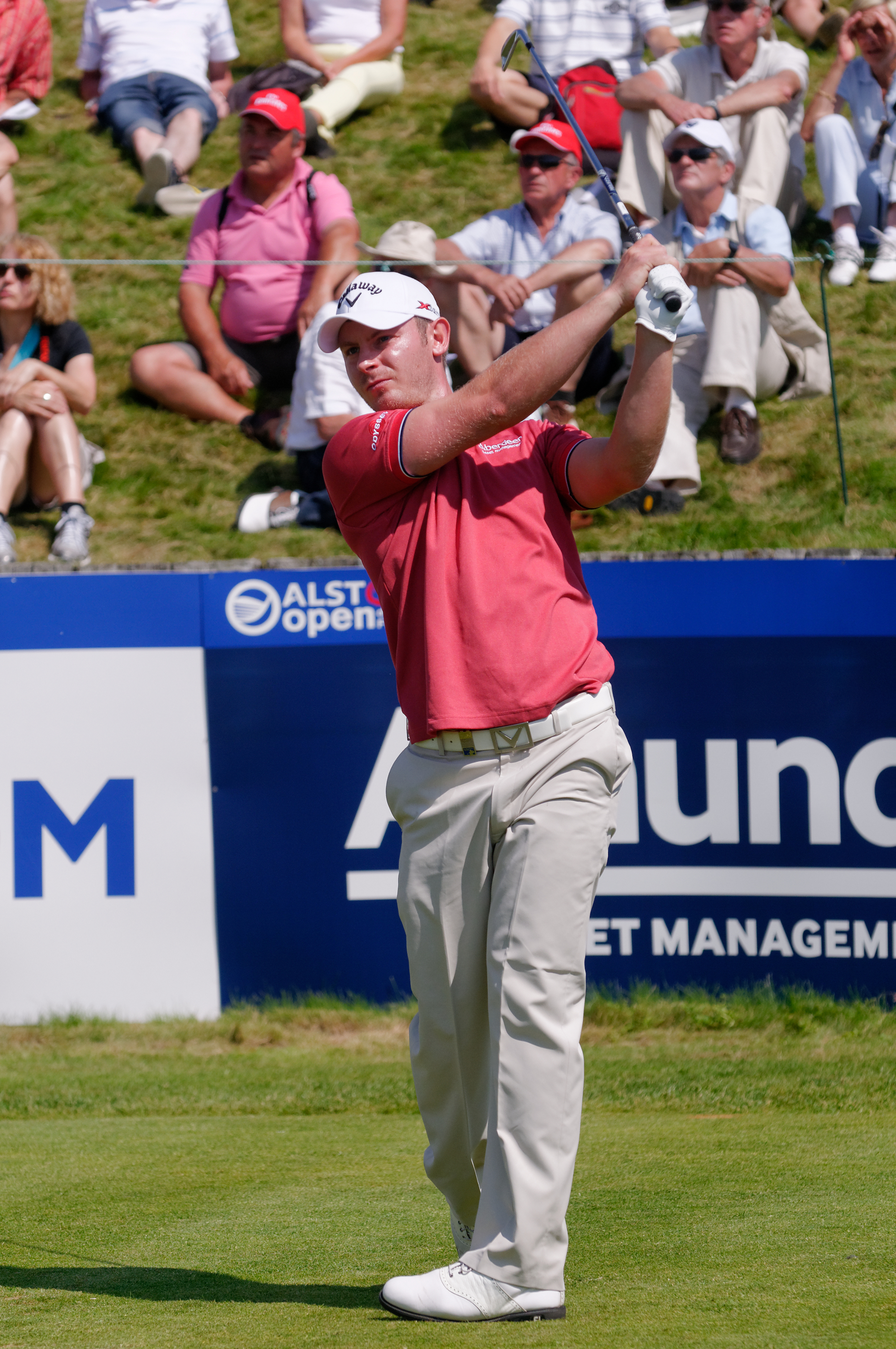 Scotland's Scott Henry tees off on the 1st hole during round 3 of the French Golf Open at the Golf National in Saint Quentin en Yvelines, Saturday July 6th 2013.